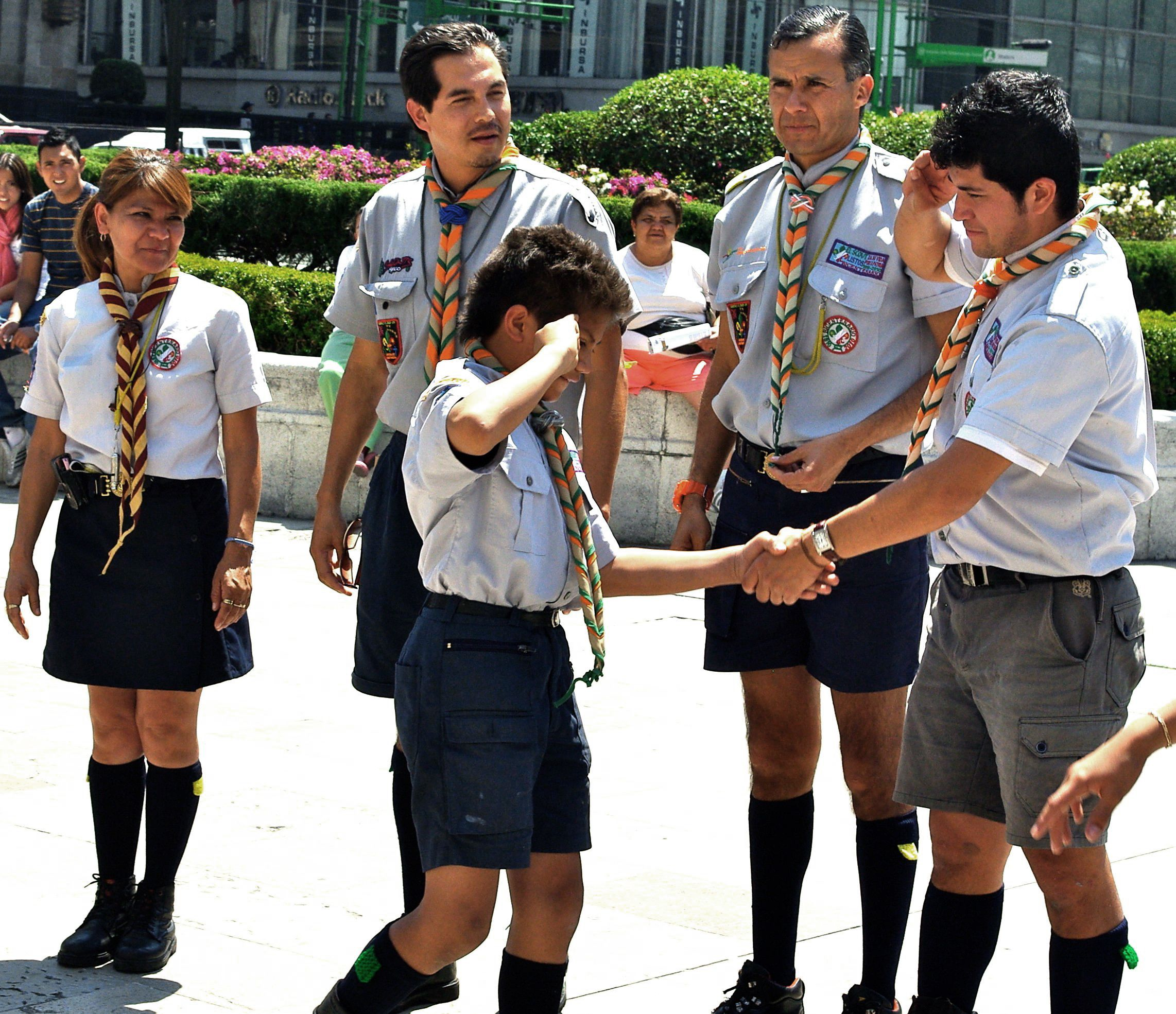 Four adult Scout Leaders welcome a new boy into the organization, Mexico City, March 2010. Photo by George Garrigues.